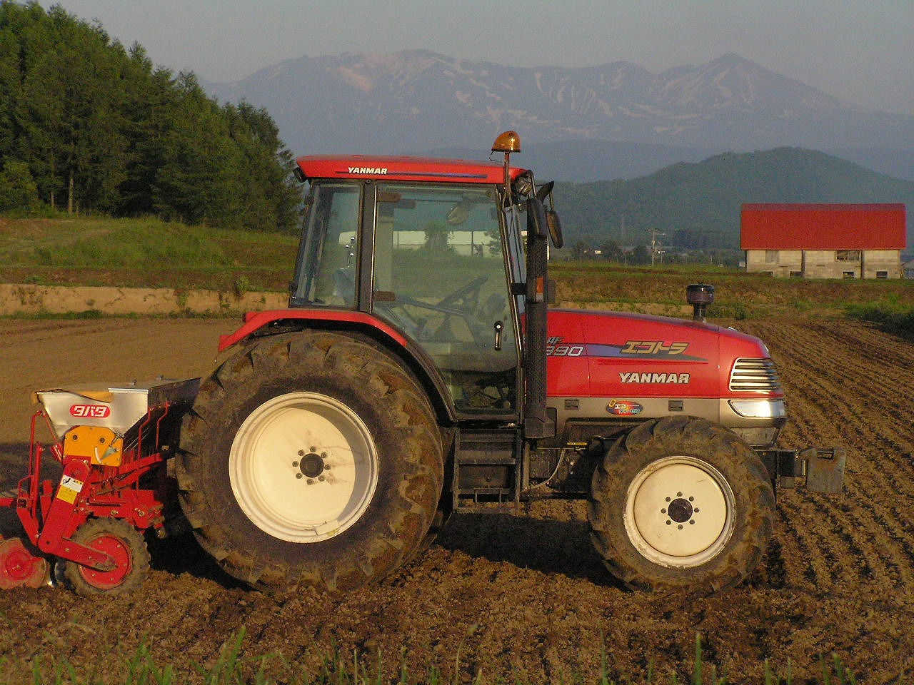 Yanmar tractor in Japan